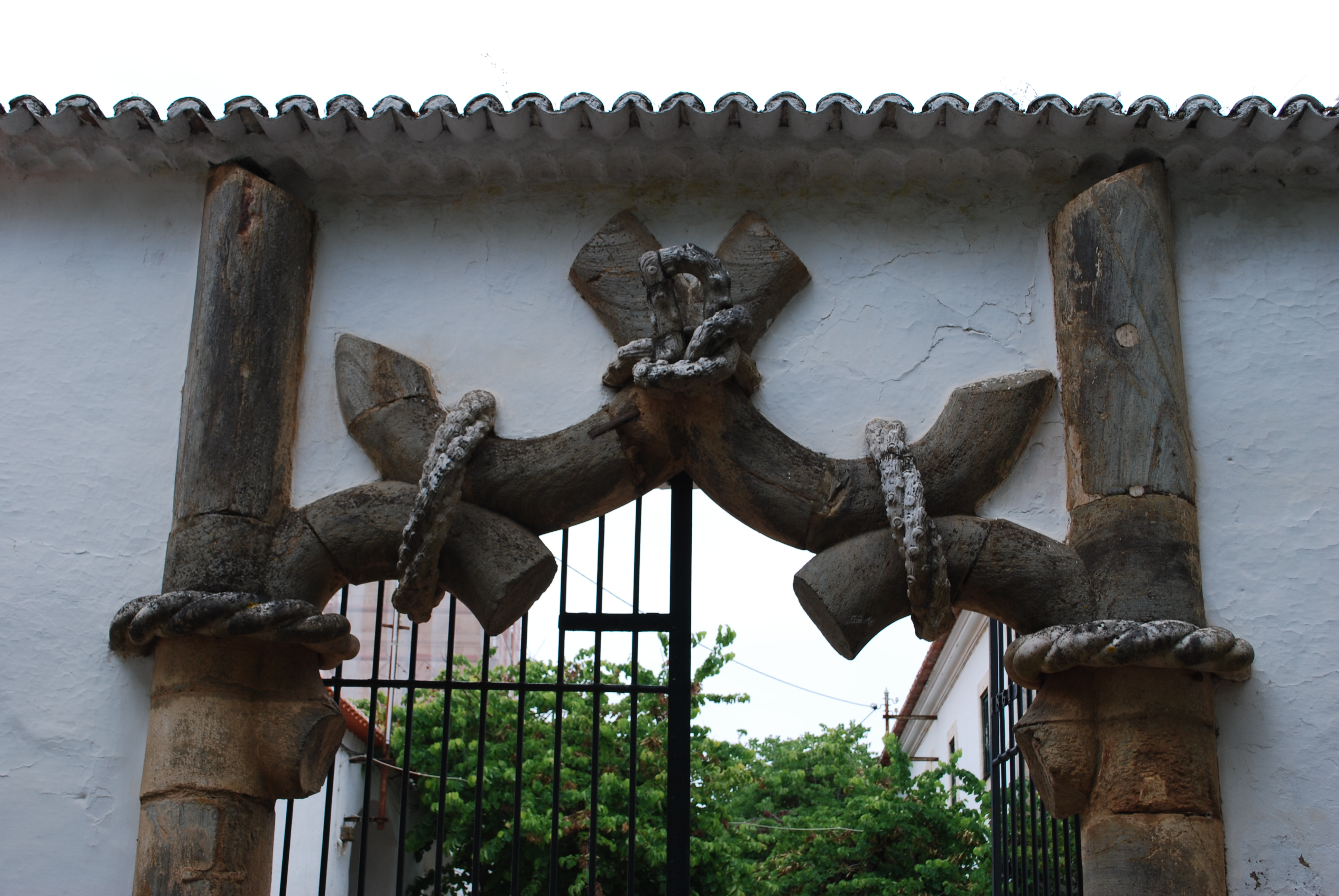 This file was uploaded for Wiki Loves Monuments in Portugal with the unique identifier 70205.